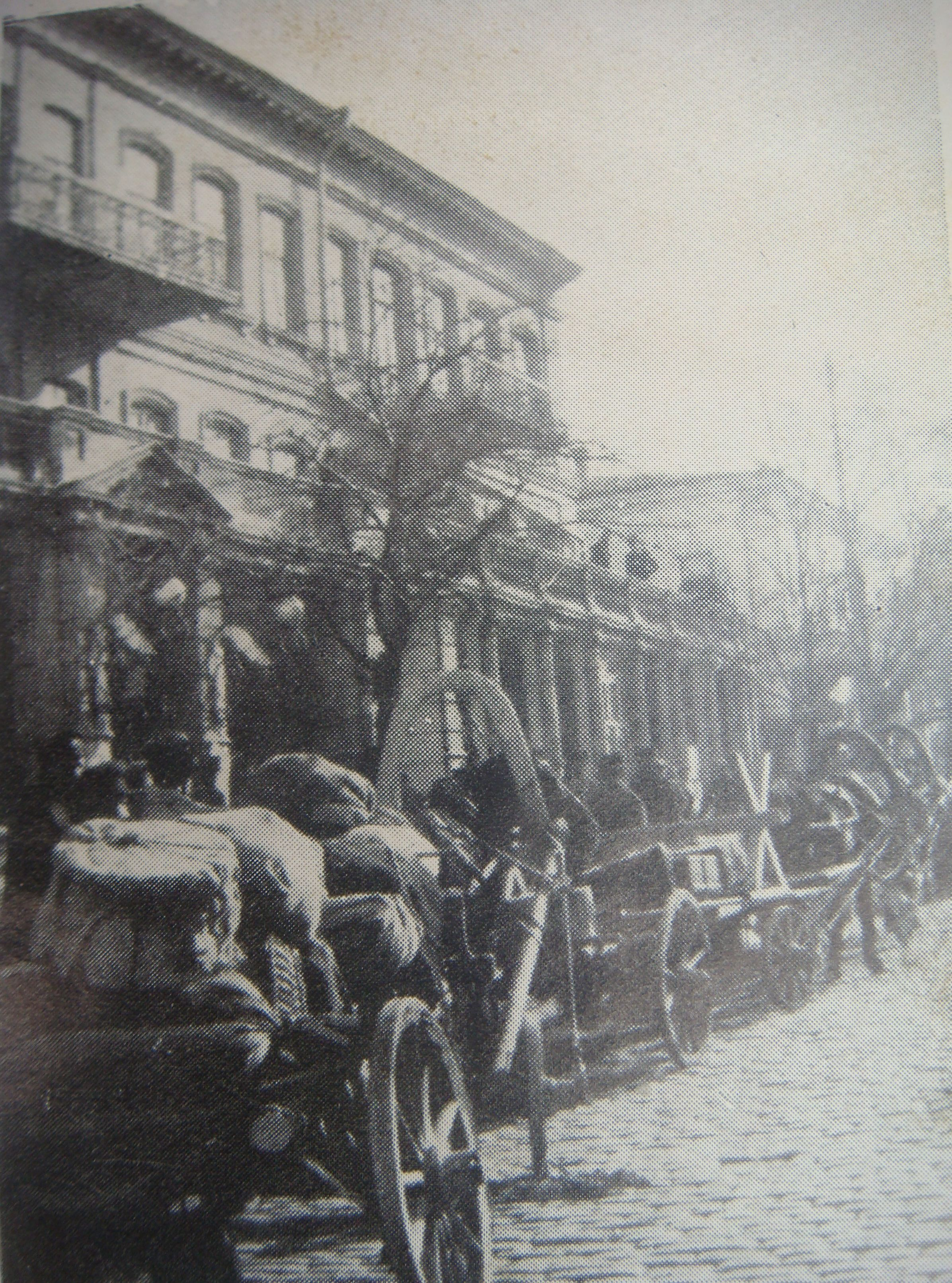 Queue of russian civilians during evacuation leaving their own country, escaping bolshevik's red therror in Crimea, October 1920.